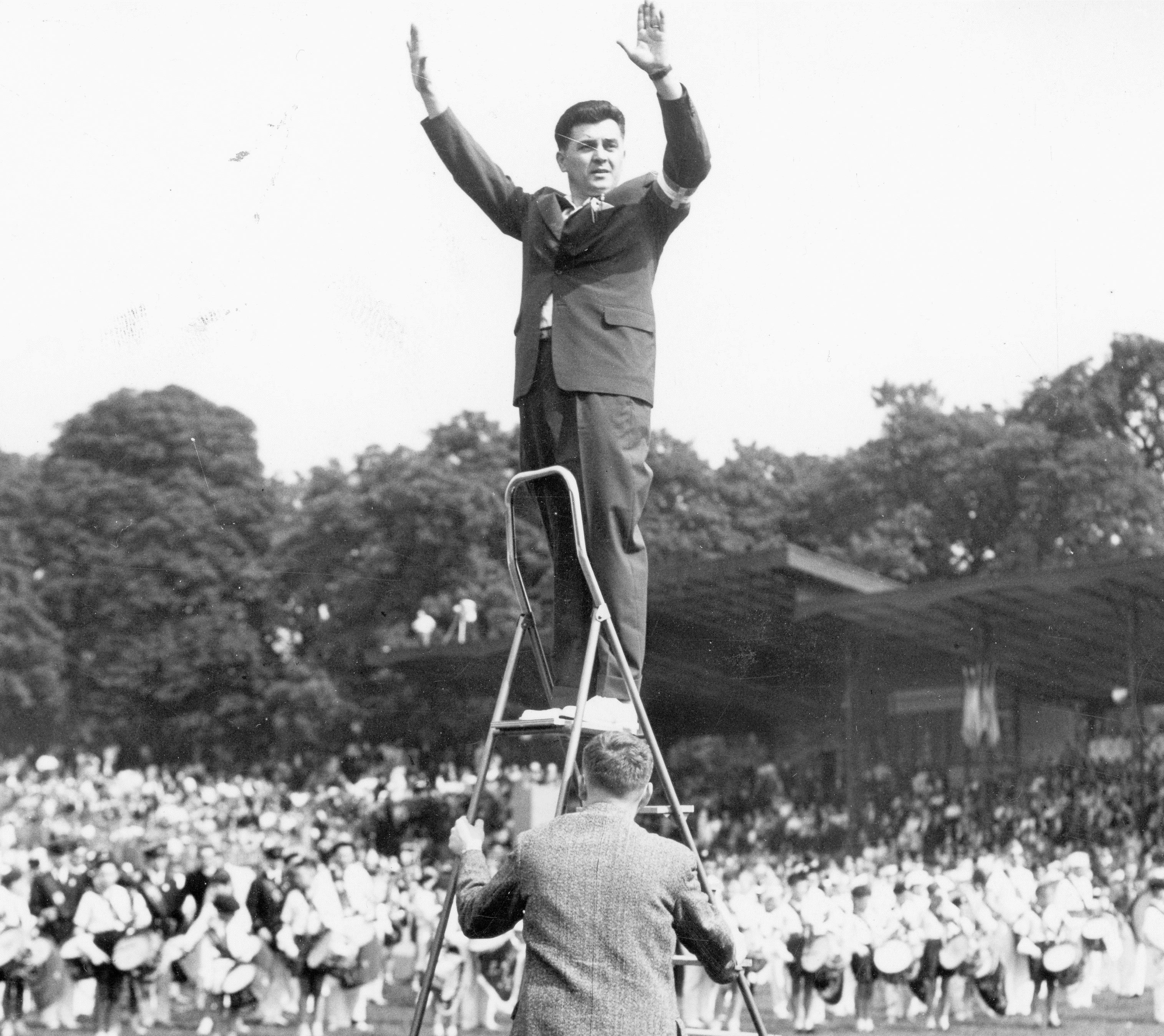 Robert Goute directing a musical festival around 1960